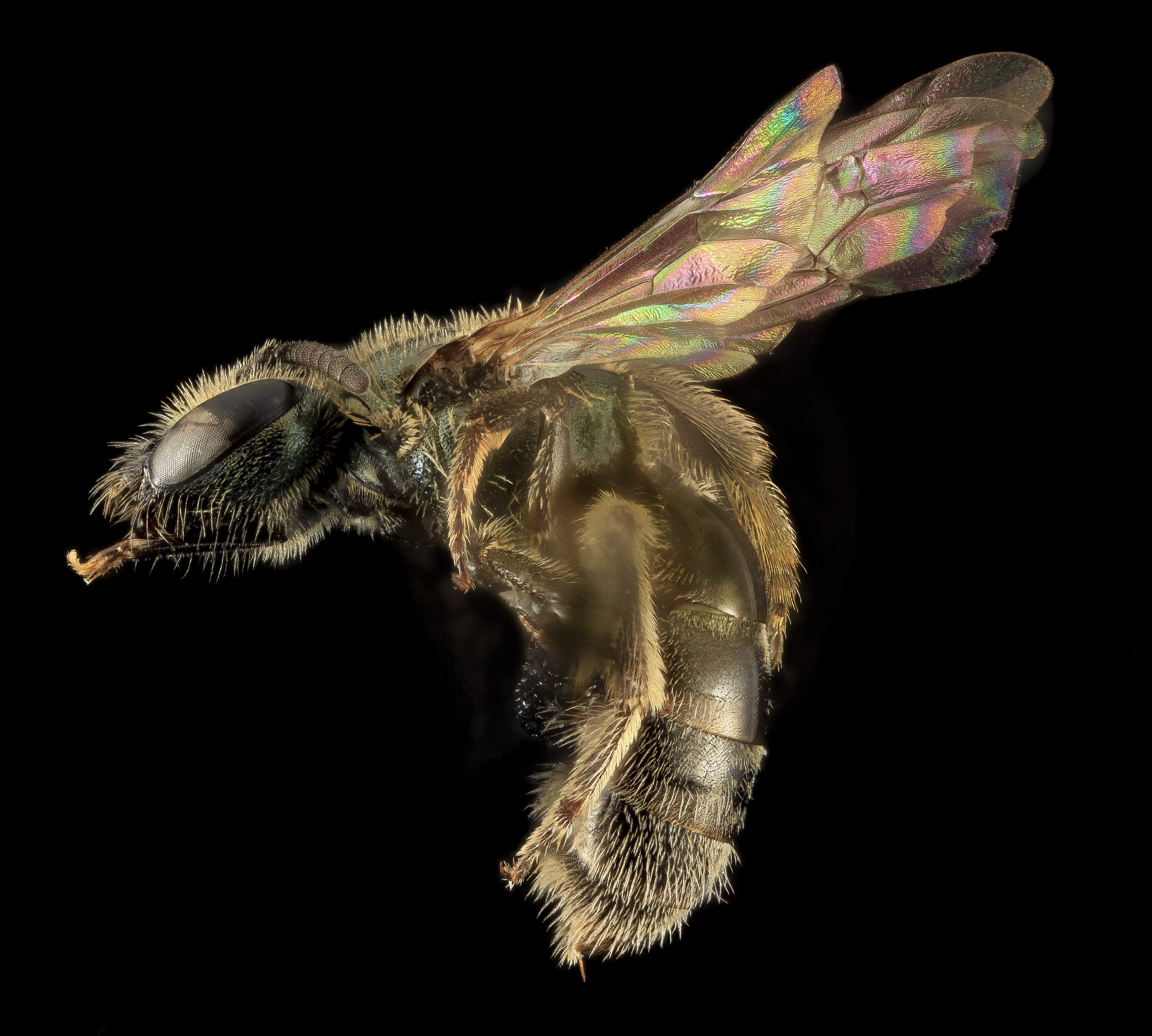 A pretty little Lasioglossum from the Dialictus group. This bee was collected in the San Juan Island national historic Park in Washington state. Photograph by Brooke Alexander. 18:40, 9 August 2015 (UTC)18:40, 9 August 2015 (UTC) 0 18:40, 9 August 2015 (UTC)18:40, 9 August 2015 (UTC) All photographs are public domain, feel free to download and use as you wish. Photography Information: Canon Mark II 5D, Zerene Stacker, Stackshot Sled, 65mm Canon MP-E 1-5X macro lens, Twin Macro Flash in Styrofoam Cooler, F5.0, ISO 100, Shutter Speed 200 Beauty is truth, truth beauty - that is all Ye know on earth and all ye need to know " Ode on a Grecian Urn" John Keats Contact information: Sam Droege 301 497 5840